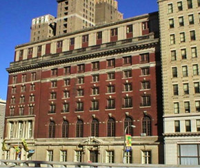 Elkins Memorial Y.M.C.A., 1425 Arch Street, Philadelphia, PA (1911), designed by architect Horace Trumbauer